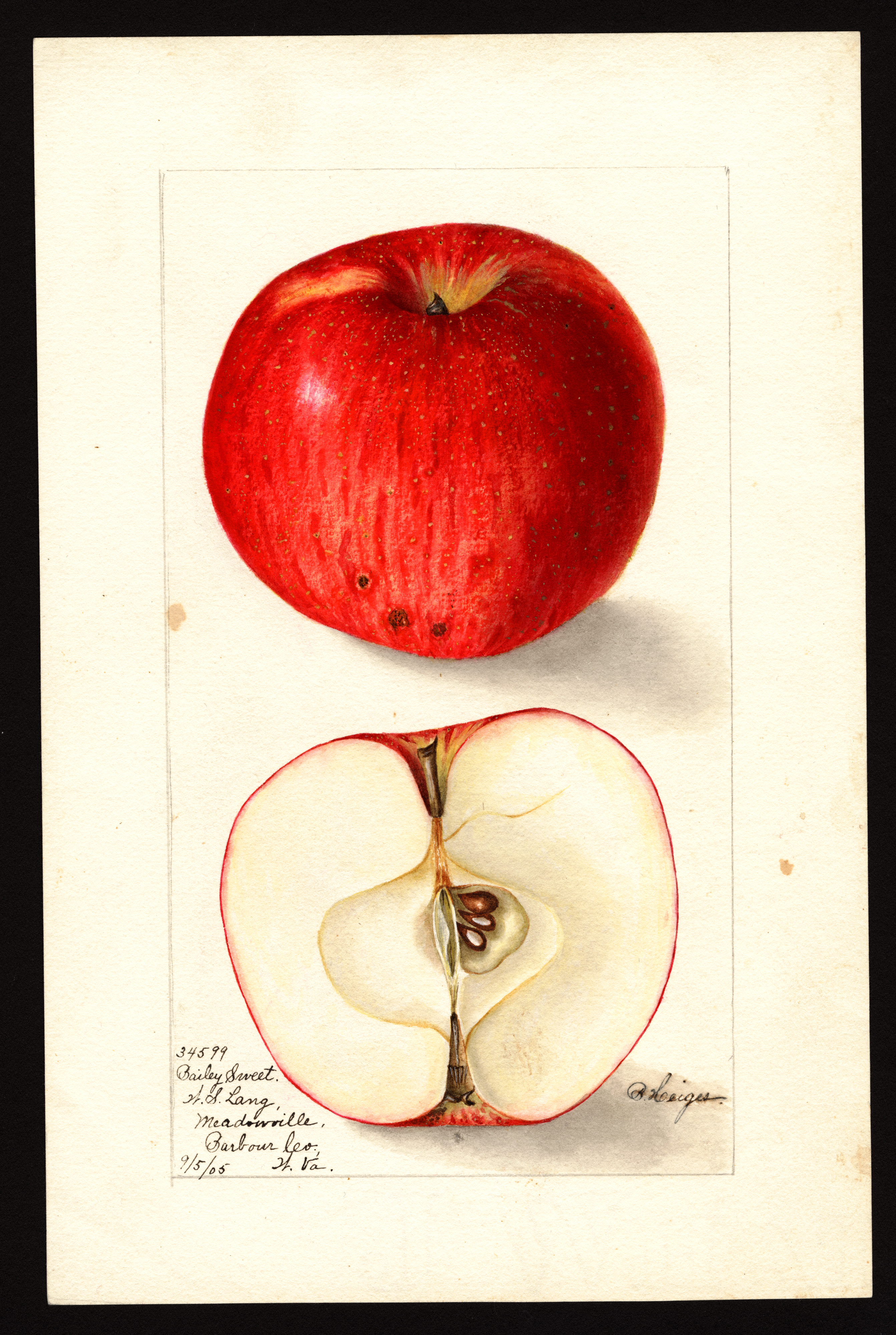 Image of the Bailey Sweet variety of apples (scientific name: Malus domestica), with this specimen originating in Meadowville, Barbour County, West Virginia, United States. Source: U.S. Department of Agriculture Pomological Watercolor Collection. Rare and Special Collections, National Agricultural Library, Beltsville, MD 20705.